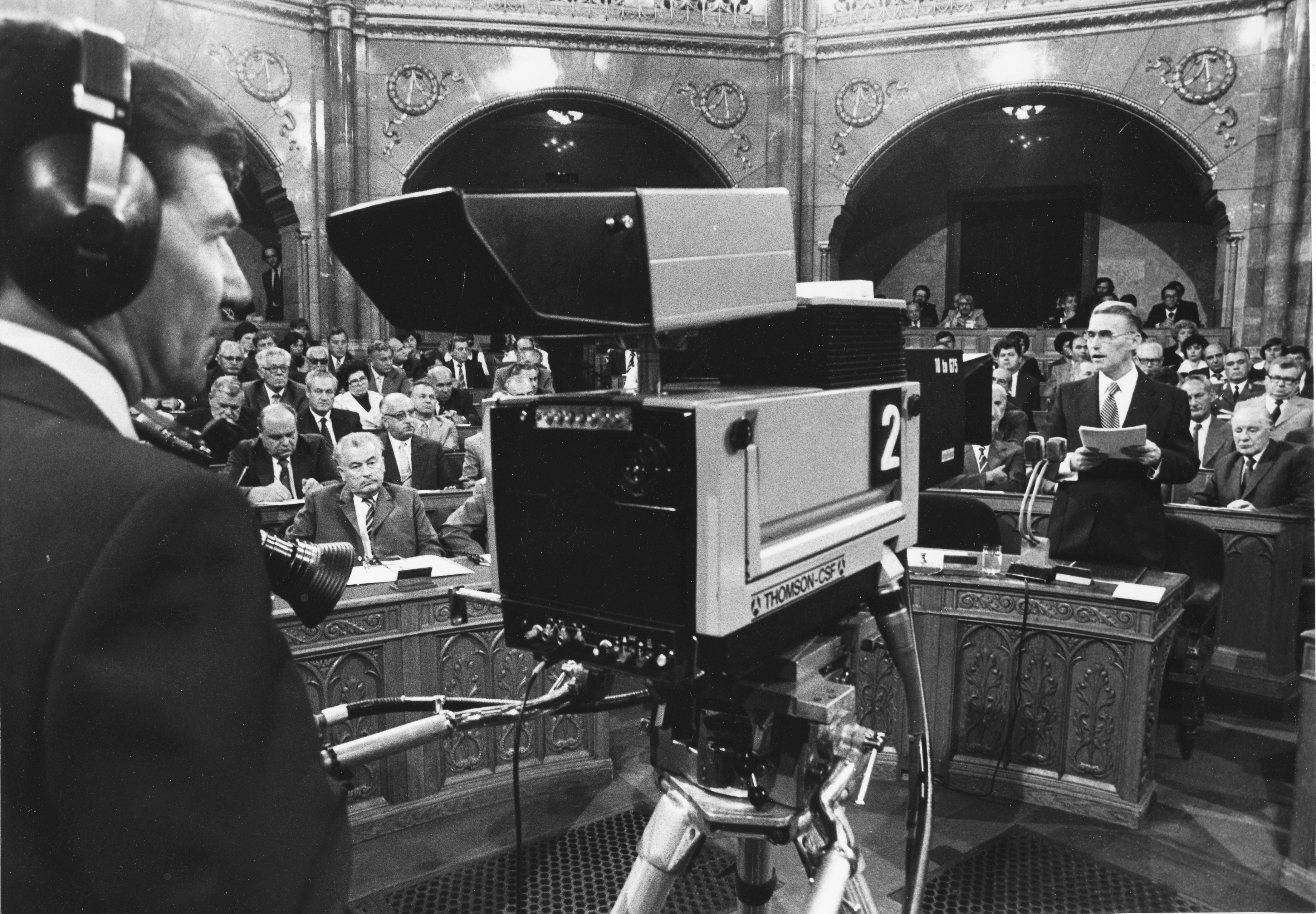 György Lázár in 1980